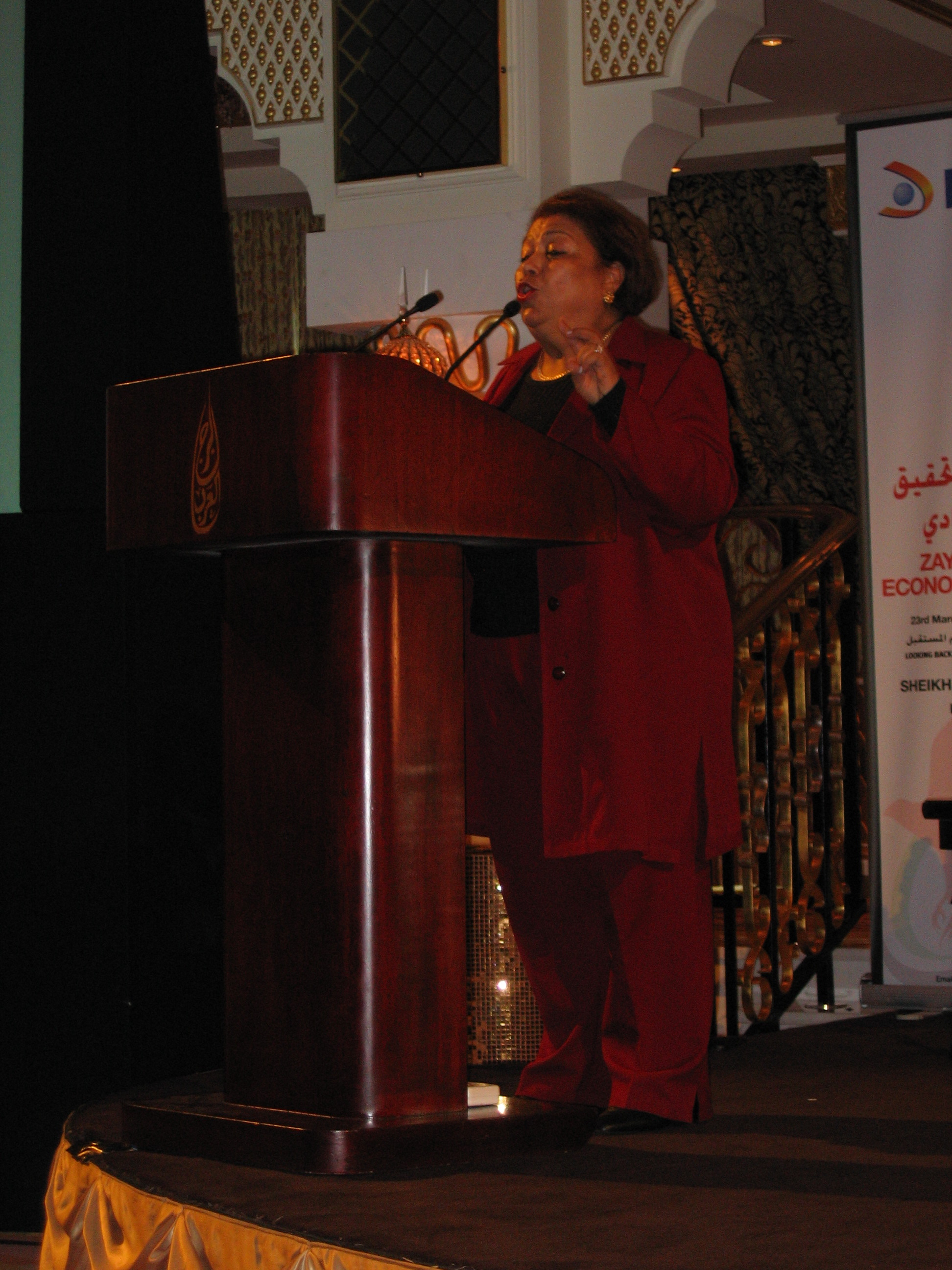 HON. Saida Agrebi Vice President of WFO President of Tunisian Mothersâ€™ Association, ATM